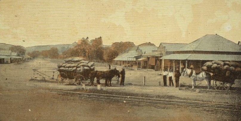 Helidon, QLD